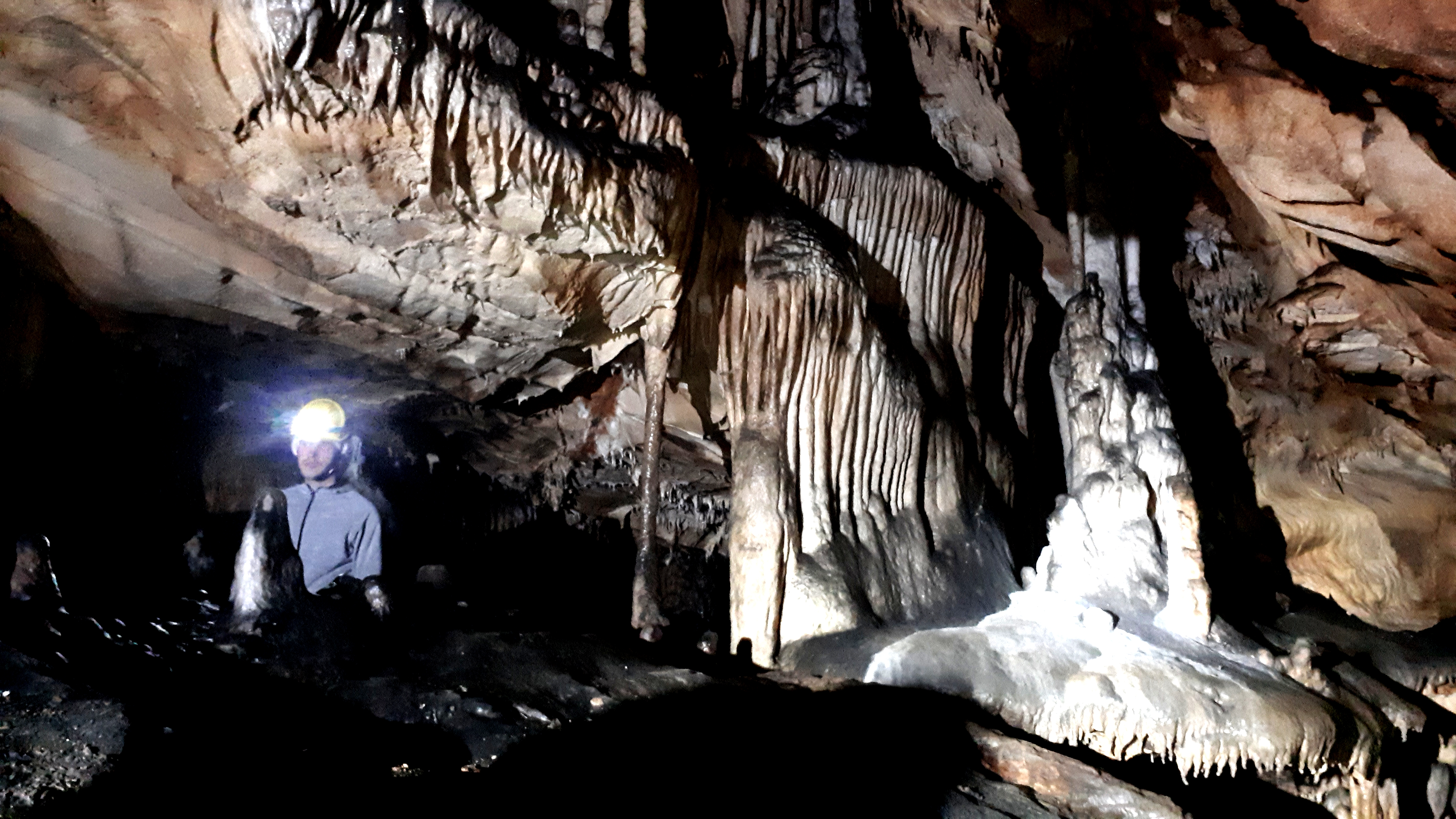 Lepenica (cave)